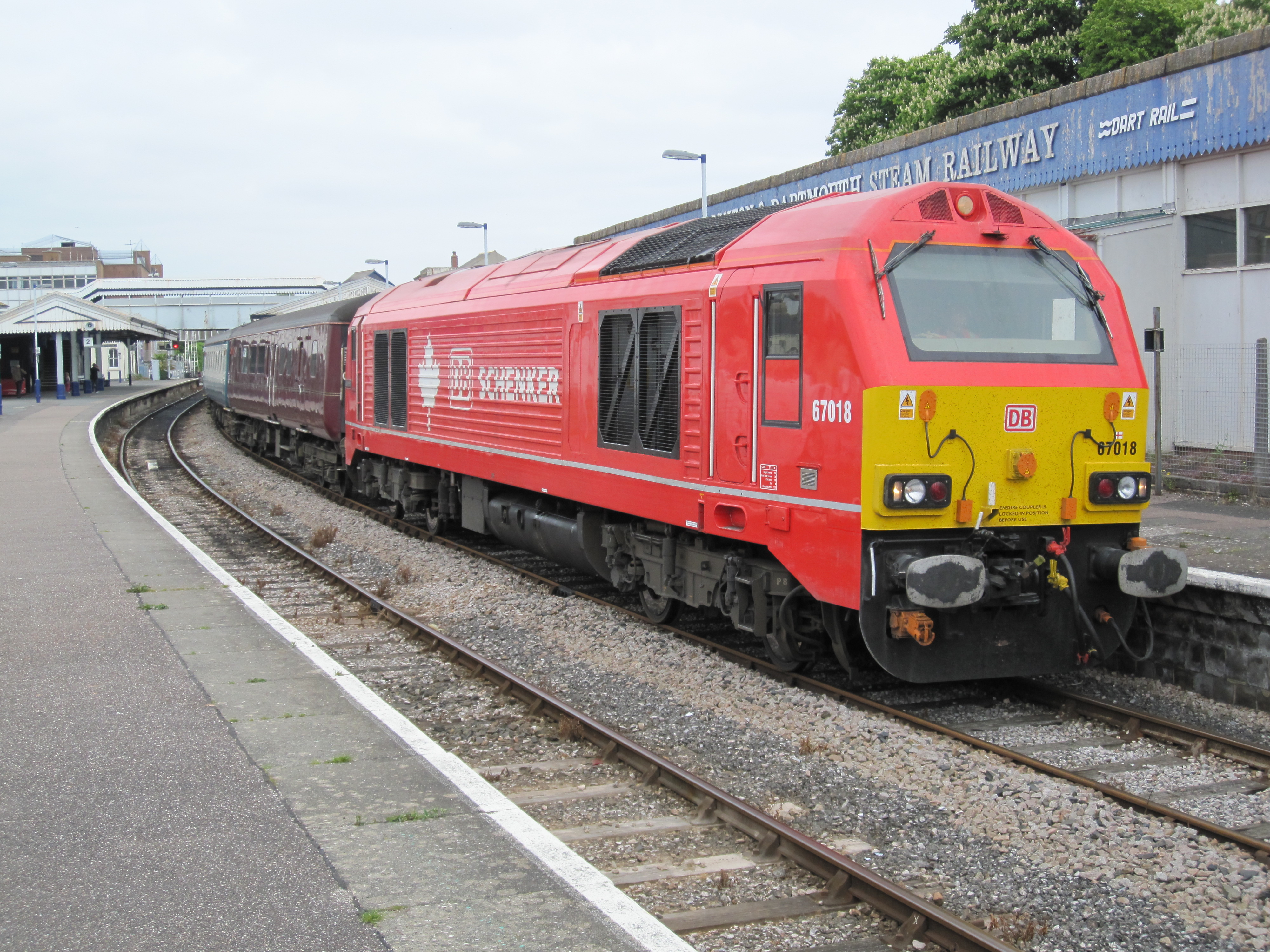 Top-and-tailed with 67s, for a few years it was possible to travel between Cardiff and Paignton on genuine trains. At the end of its journey, 67018 in DB Schenker livery is seen at Paignton.